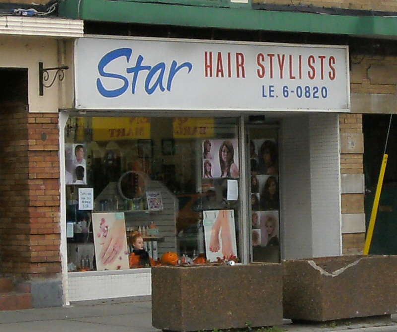 Star Hair Stylists, 1399 Queen St. W., Toronto, with an exterior sign showing the shop's telephone number in the old two-letters plus five-digits format